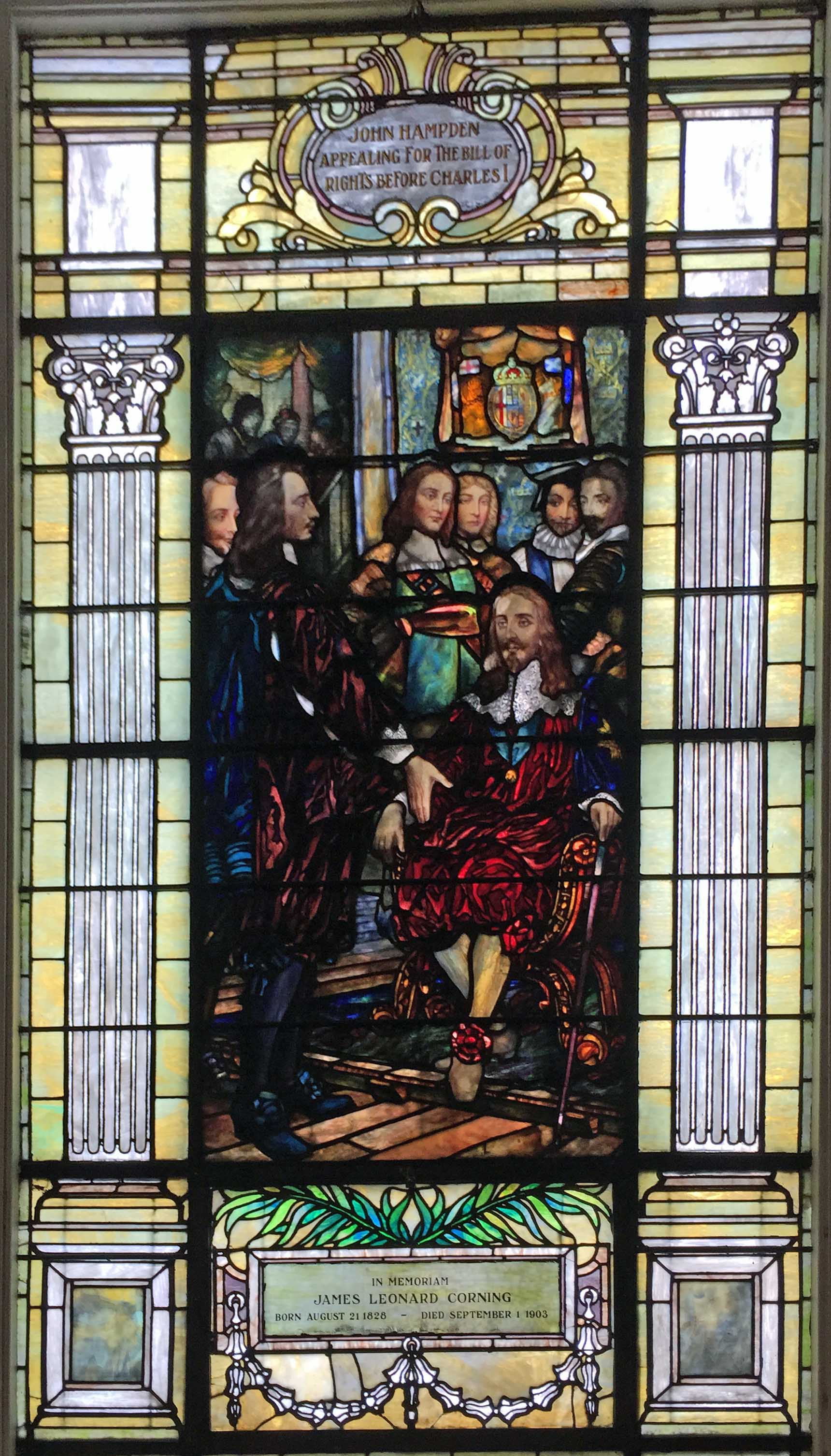 This is a photo of the first J&R Lamb Studios window installed at Plymouth Church. It depicts the scene of John Hampden appealing for the Bill of Rights Before Charles I. It is titled "The Dawn of Political Liberty” and was dedicated on December 29, 1907.